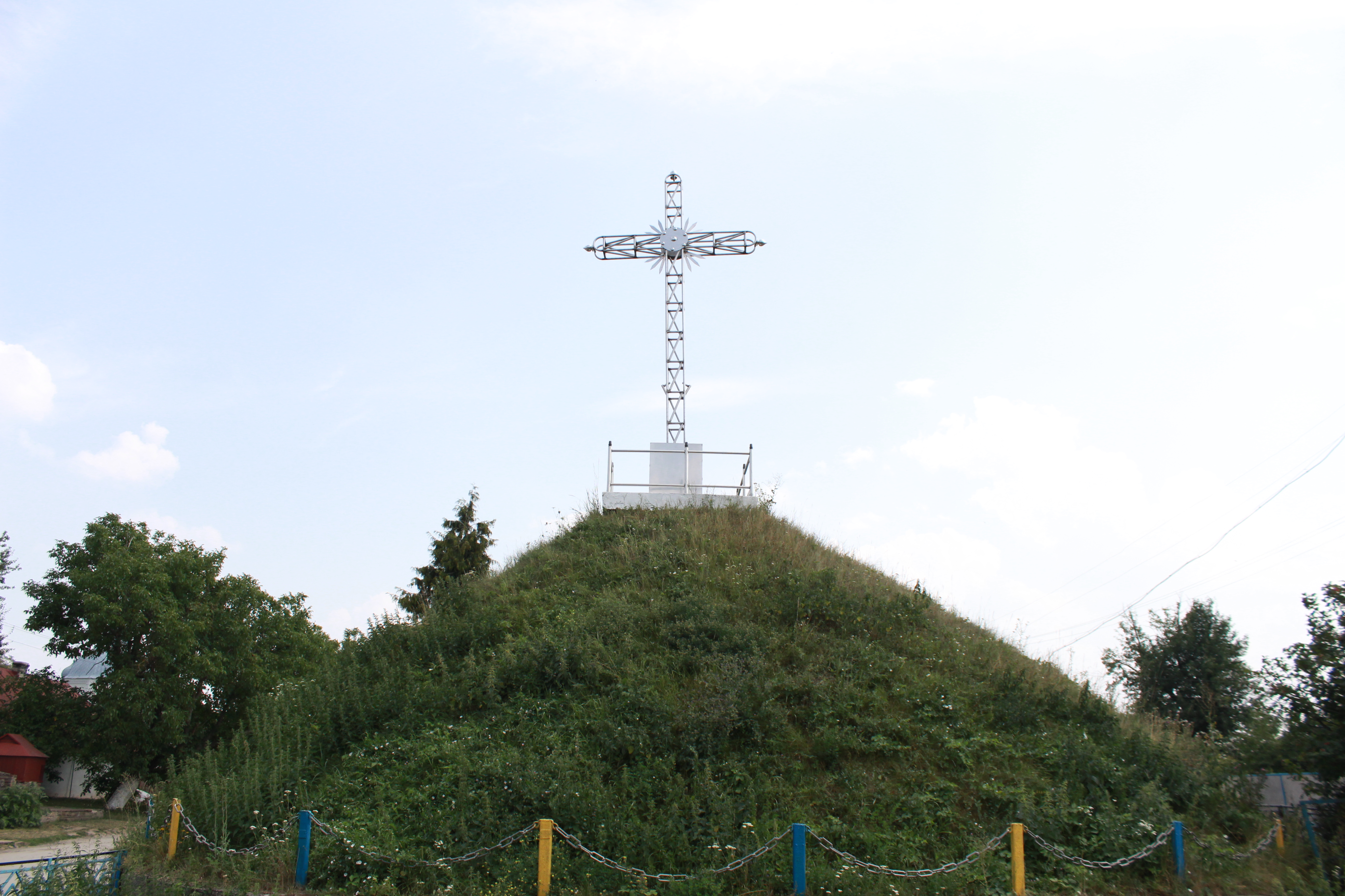 Могила Борцям за волю України, с. Базар, 2016